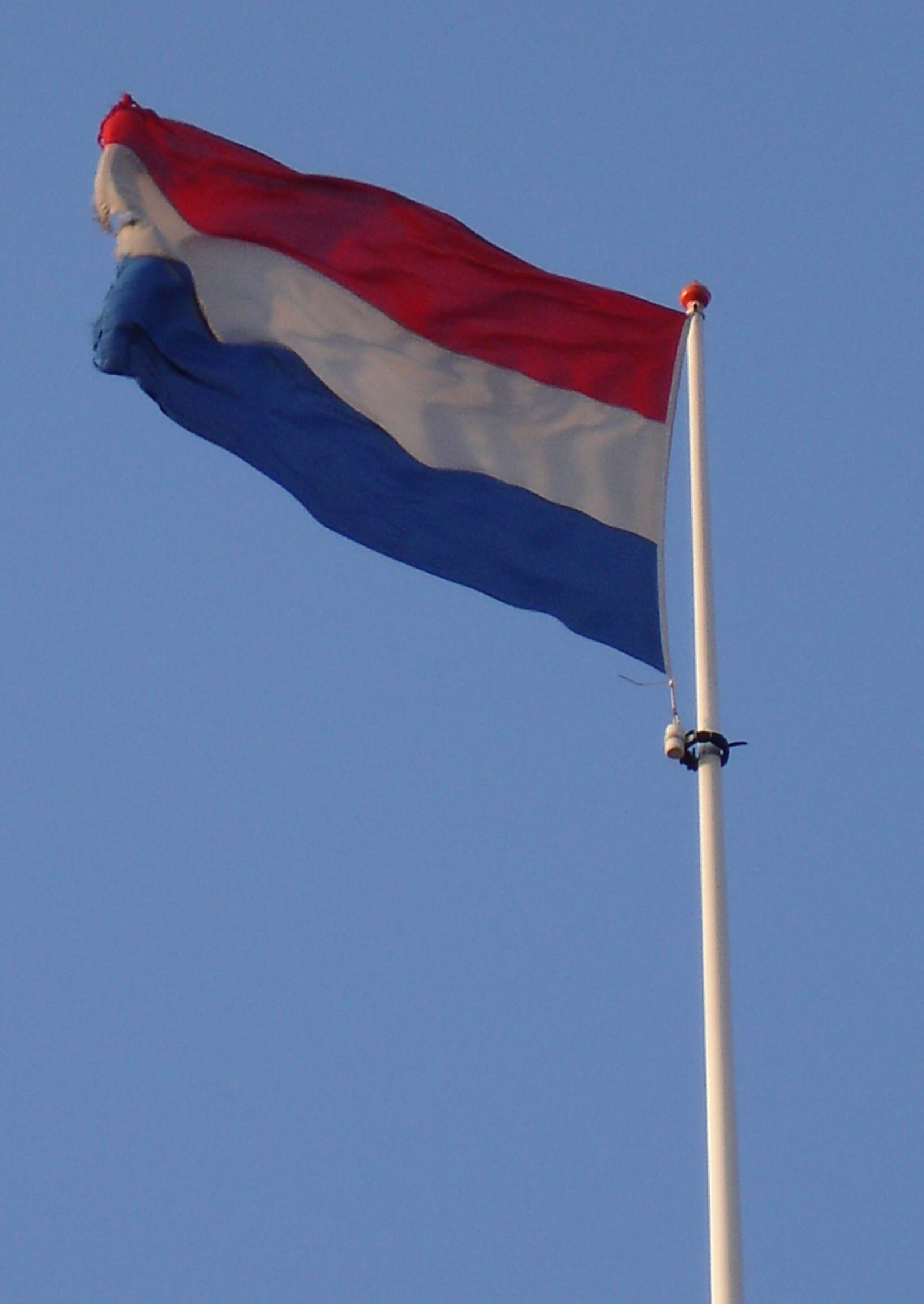 Flag of the Netherlands